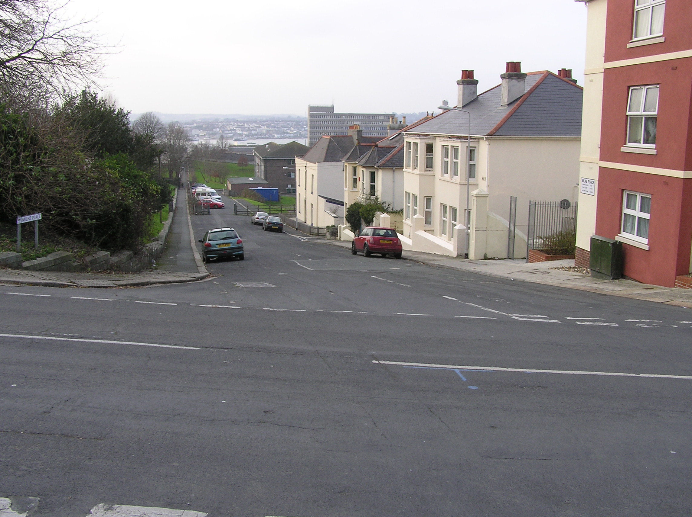 View down Milne Place, Devonport, England towards Torpoint Ferry